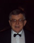 Photograph of musicologist Geoffrey Chew.